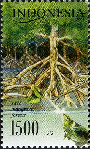 Stamps of Indonesia